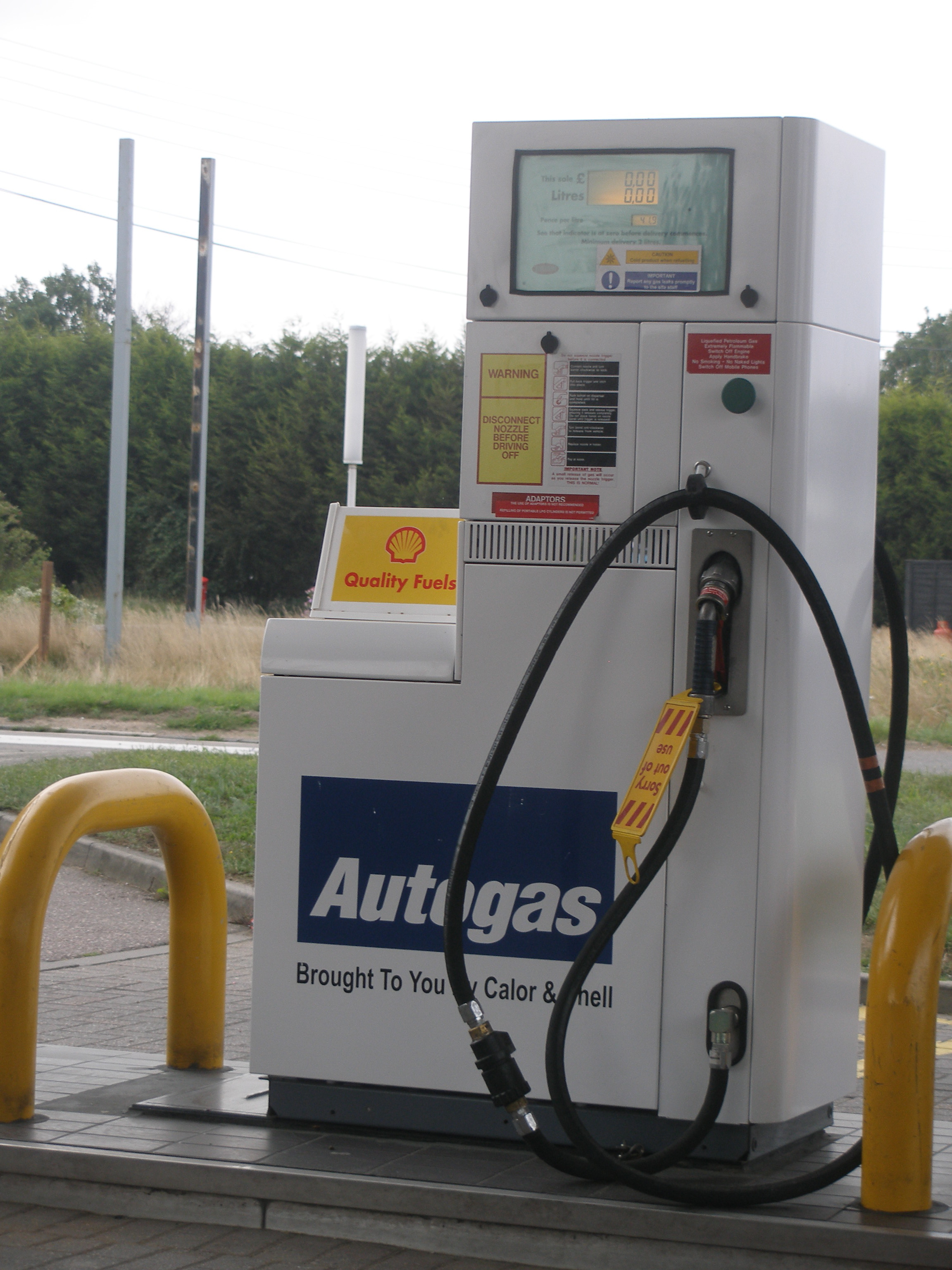 A Shell Autogas refueling station.